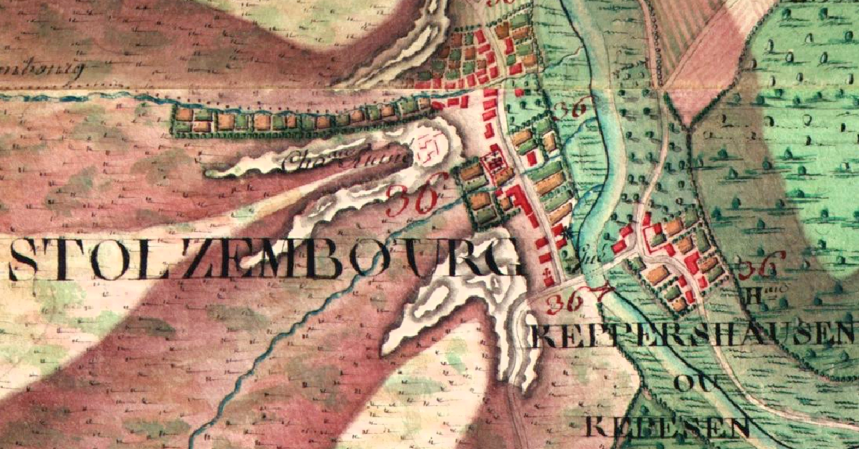 Stolzembourg, Luxembourg, on the map of Ferraris.